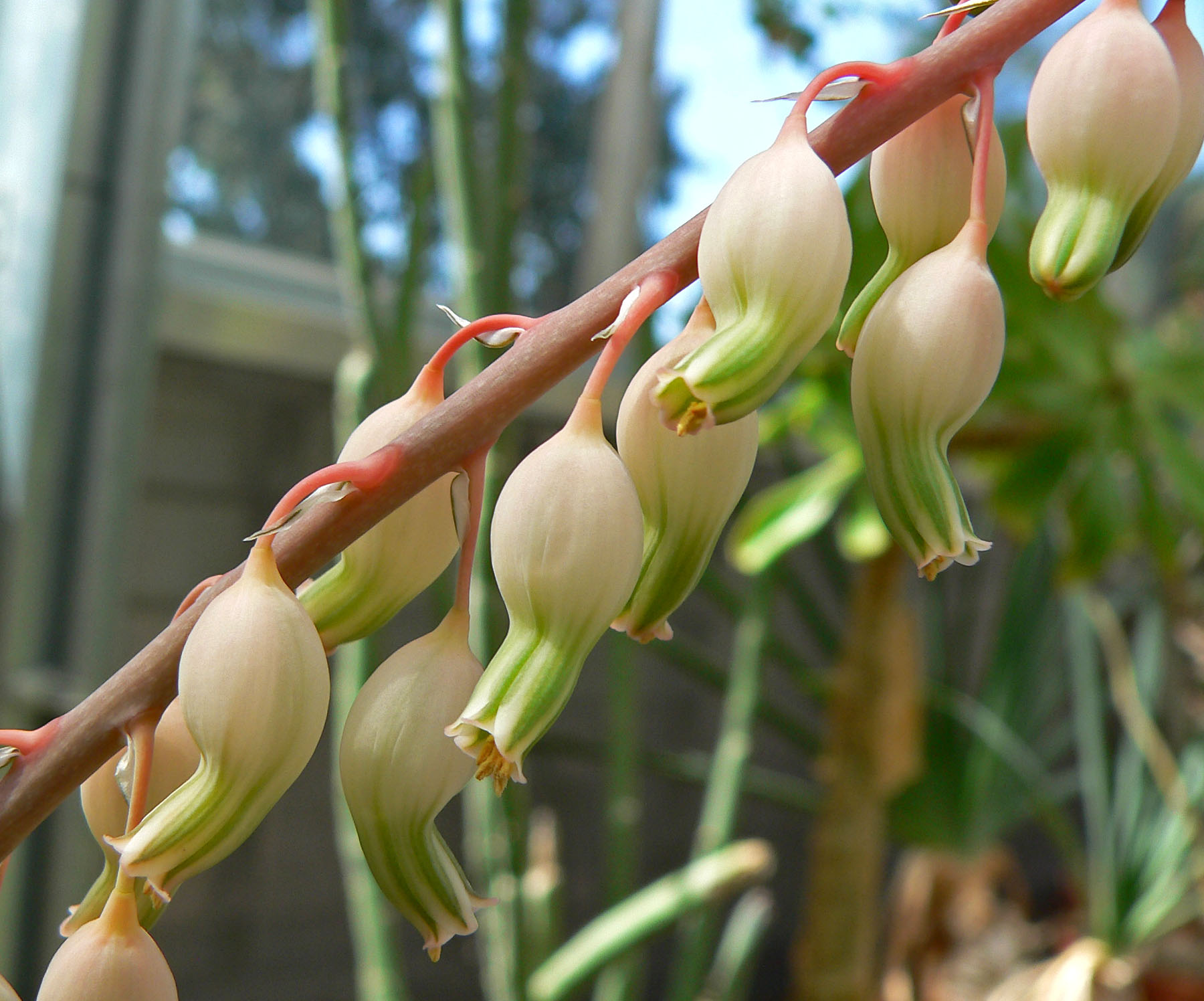 Gasteria bicolor var. bicolor at the University of California Botanical Garden, Berkeley, California